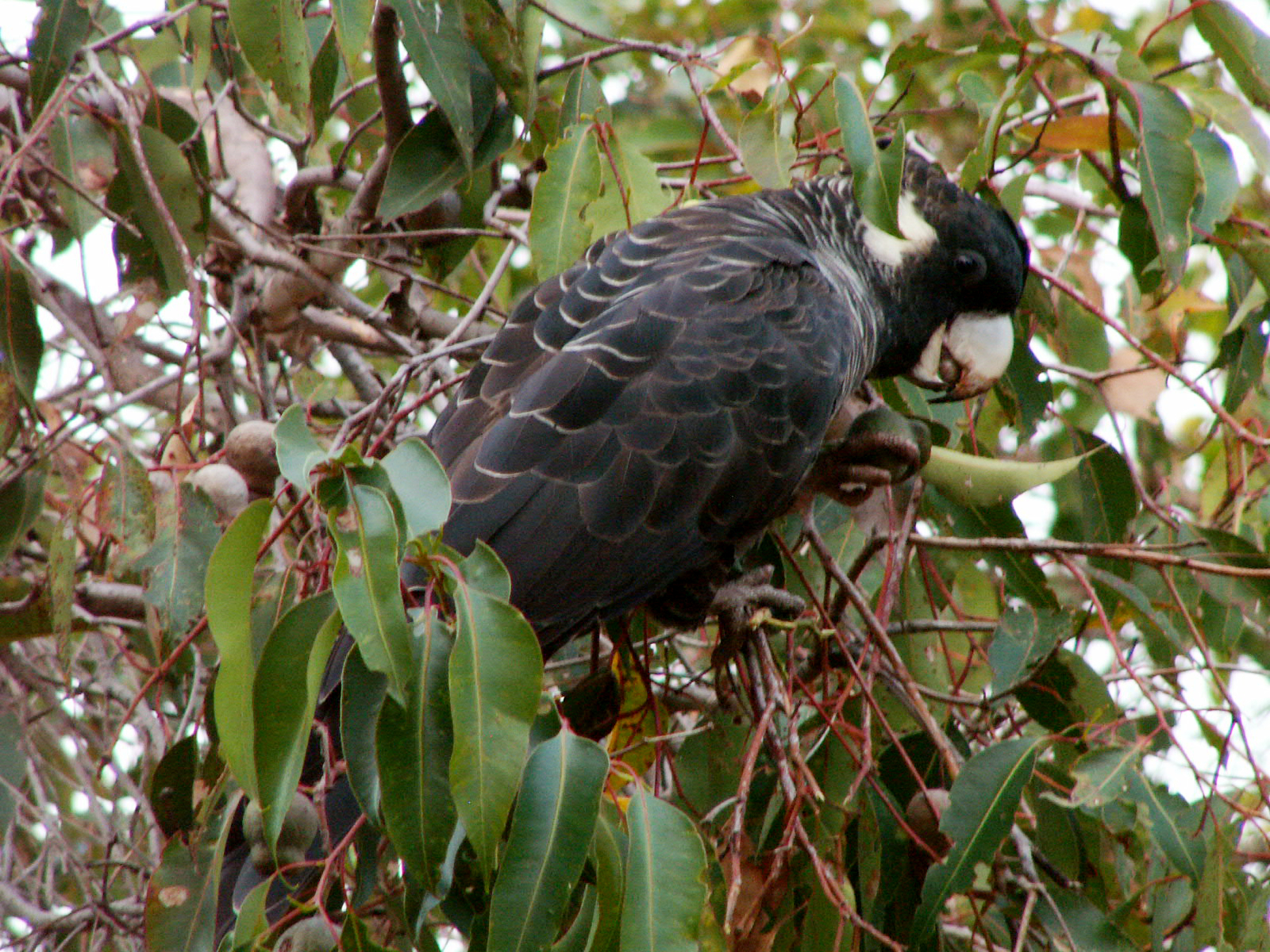 A female Long-billed Black Cockatoo (also called Baudin's Black Cockatoo) at Margaret River, Western Australia.